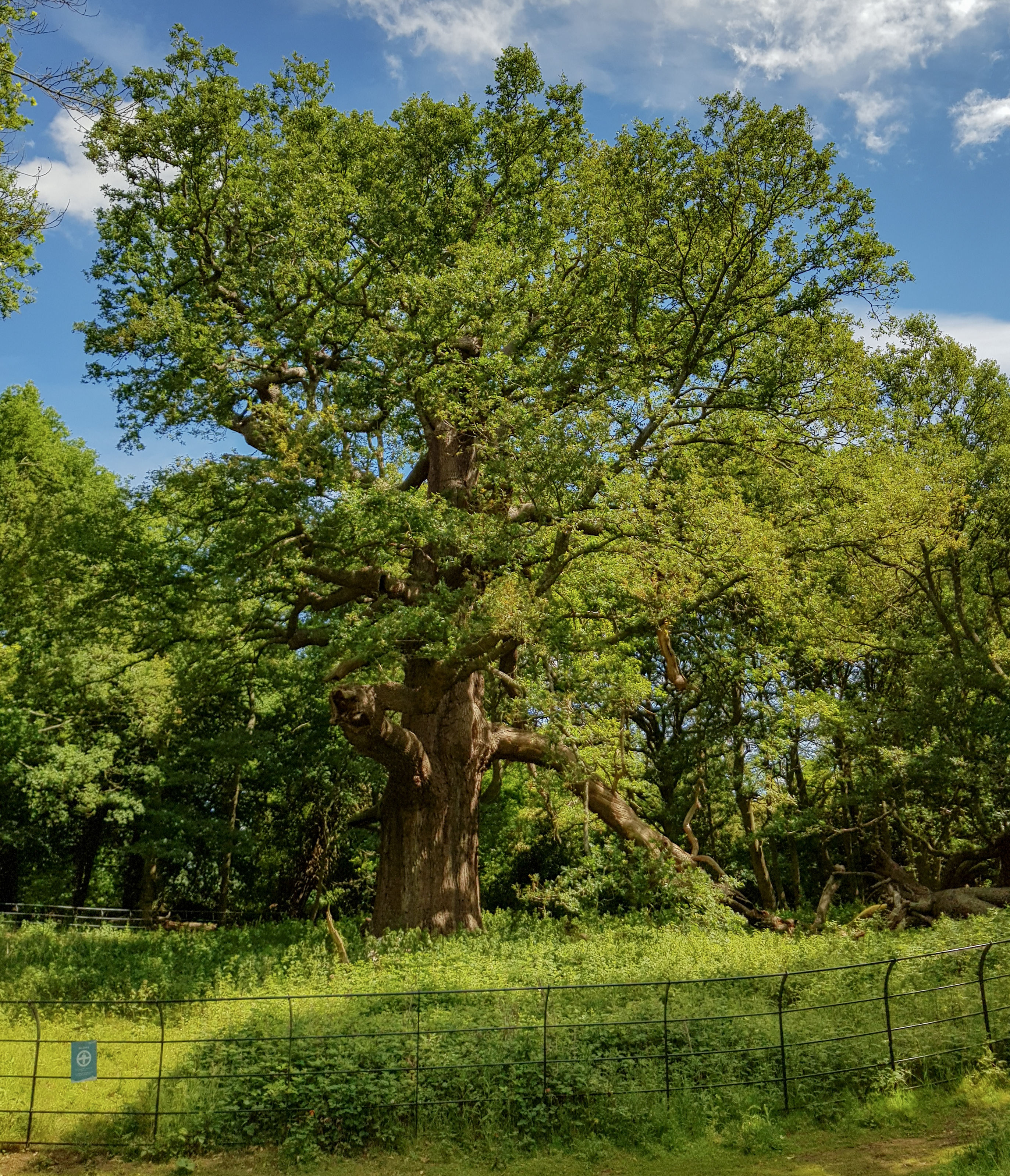 The Panshanger Great Oak. The limb on the right touches the ground and had rooted itself to produce an independent daughter tree. According to an information board next to the tree, it is 65 feet (198 metres) tall and 26 feet (7.8 metres) in circumference at chest height. The circumference was first measured at 17 feet (5.2 metres) in 1804 and grows in diameter almost half an inch (1cm) per year.